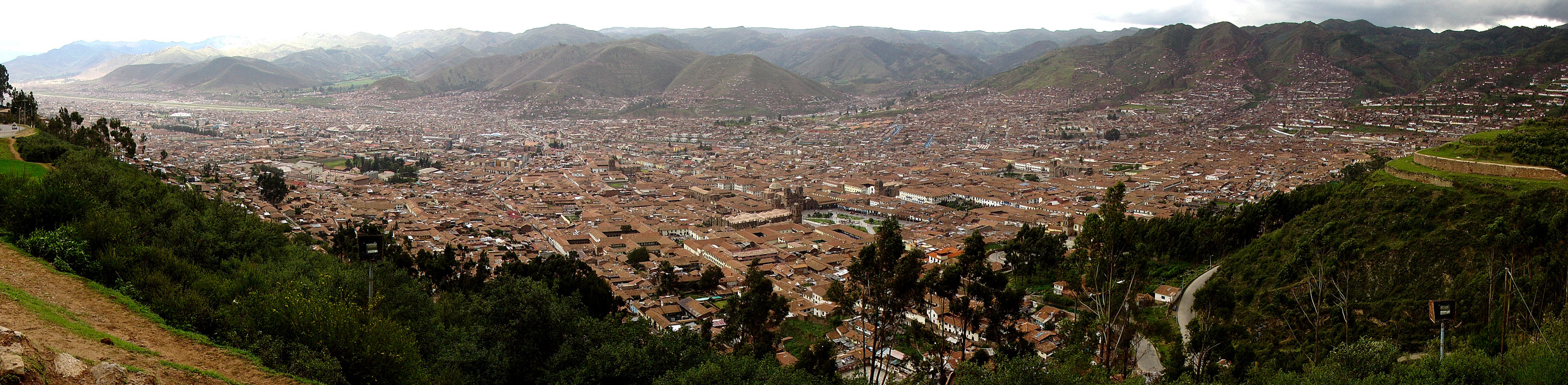 Cusco panorama, Peru